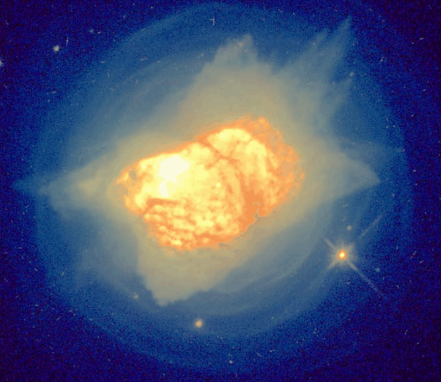 A HST Image of NGC 7027 false color. Credit: NASA/HST, H. Bond (STScI)